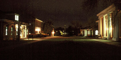 The source of the file: RMCAD photo archives